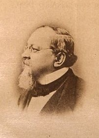 Eugen Frh. von Gorup-Besánez (January 15, 1817 – November 24, 1878) was an Austrian-German chemist